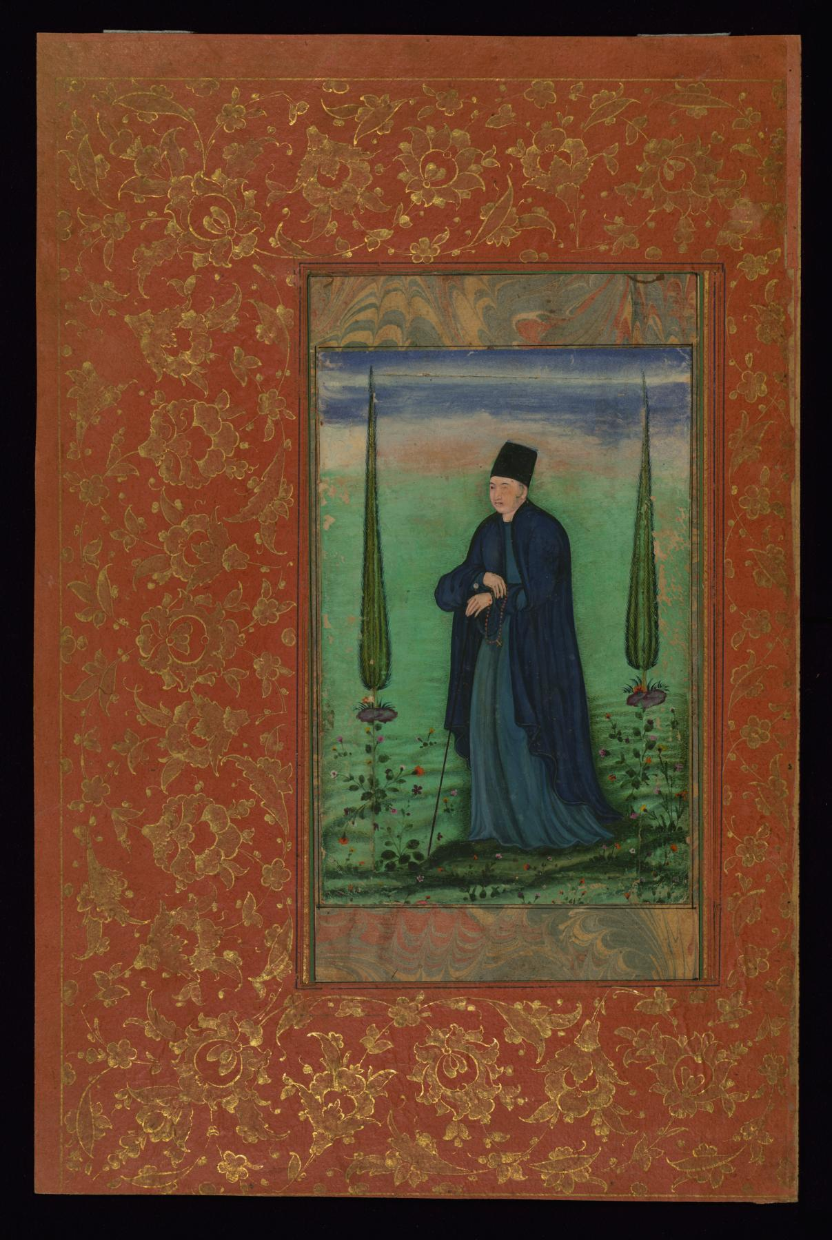 This Mughal painting from Walters manuscript leaf W.695 portrays a Jesuit priest.